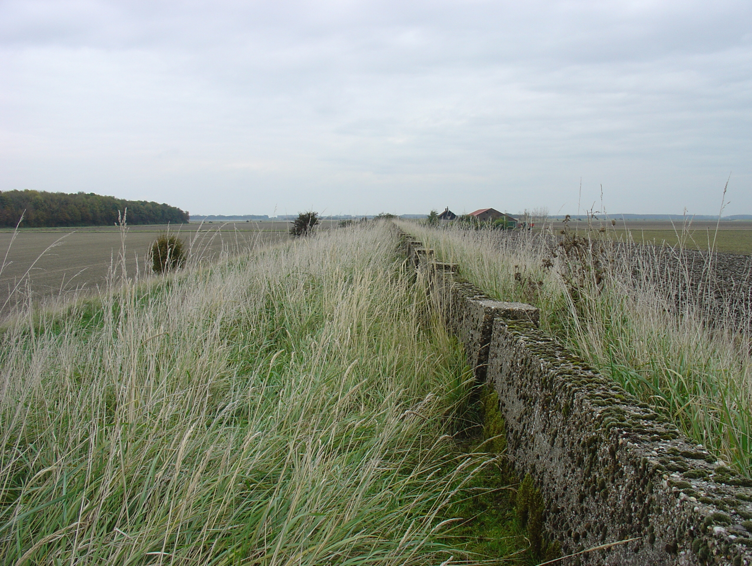 "muraltmuur"(is dutch), is a wall to extend the hight of a dike. Used in parts of the netherlands between 1906 and 1935. Location of photo: 51°31'52.33"N 3°44'16.64"O